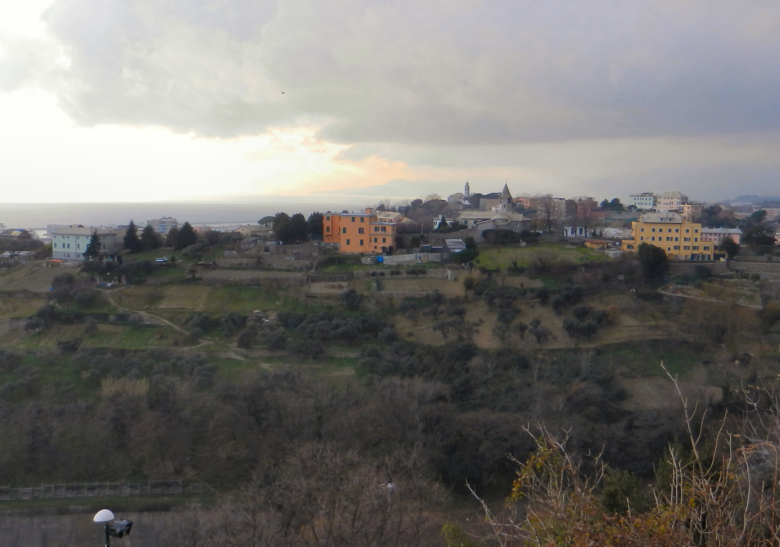 Sampierdarena (quarter of Genoa), village of Promontorio